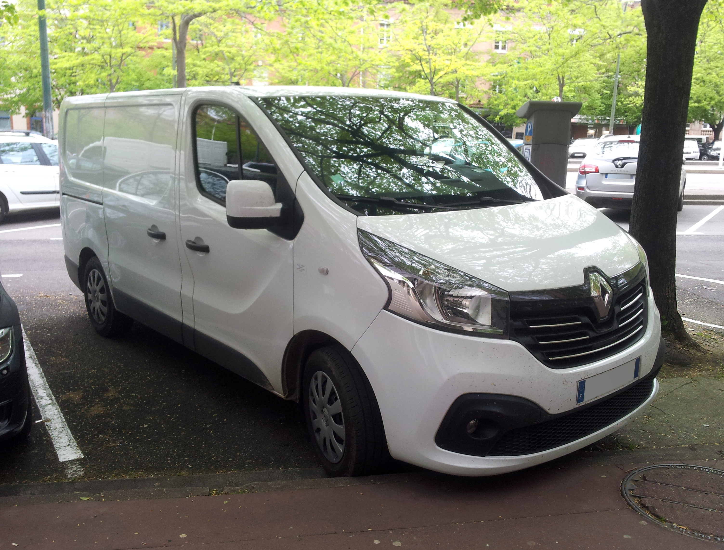 2015 Renault Trafic L1H1: 4.99 m (196.5 in) long x 1.97 m (77.6 in) high.